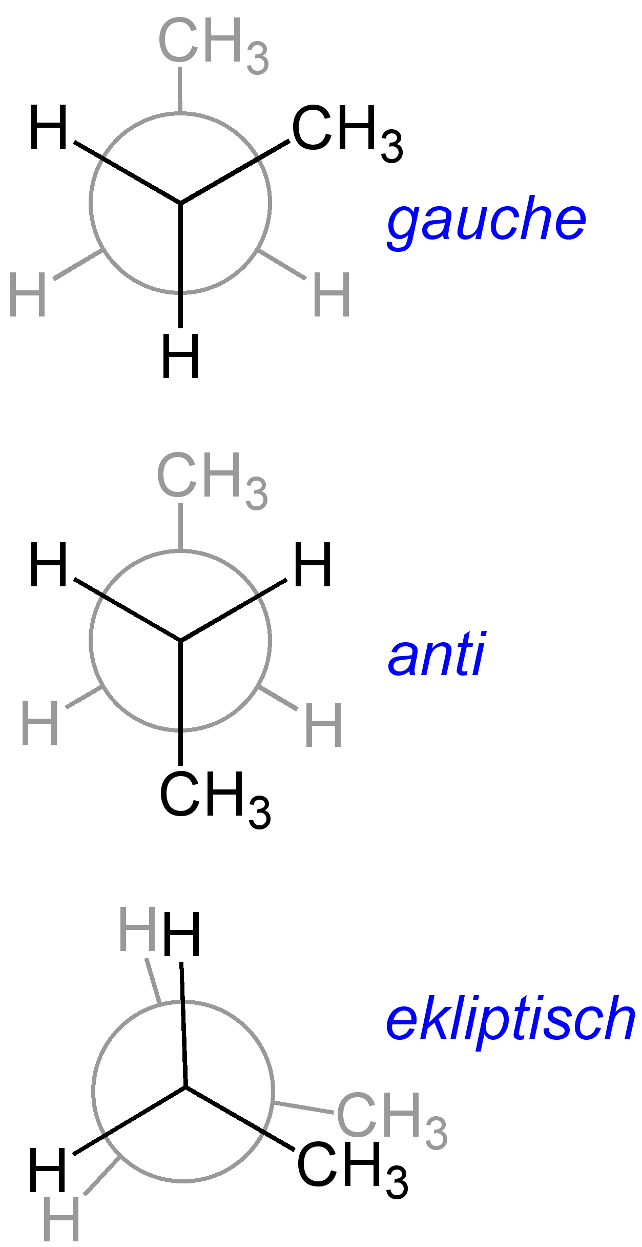 n-Butane_(Newman)